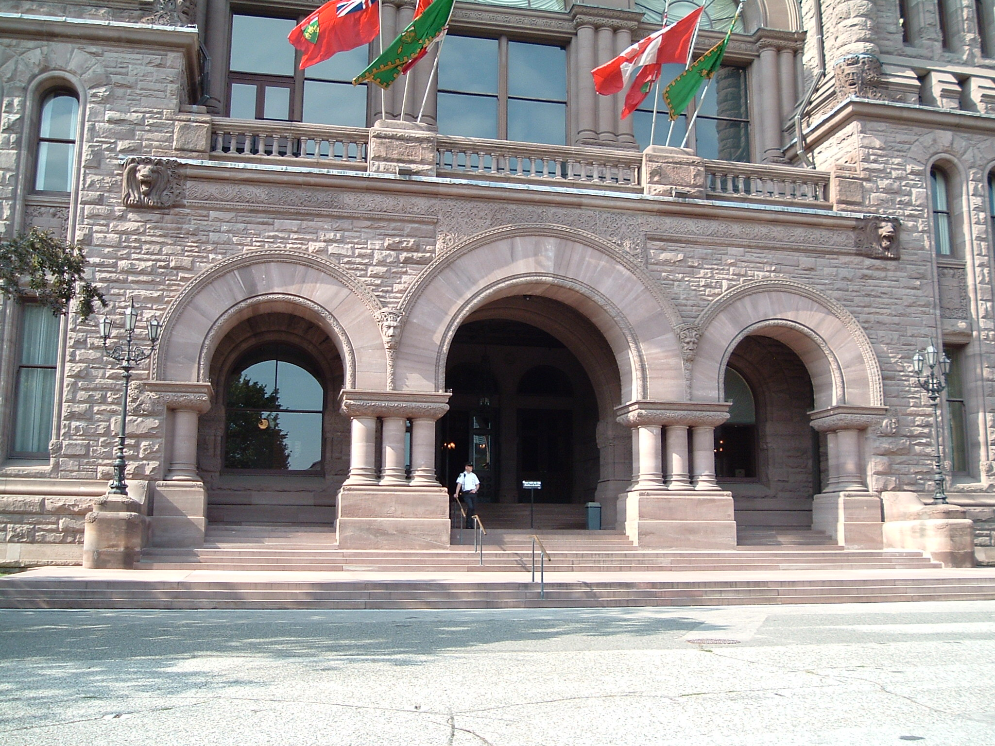 Ontario Legislature, Queen's Park, Toronto. Self made photo.